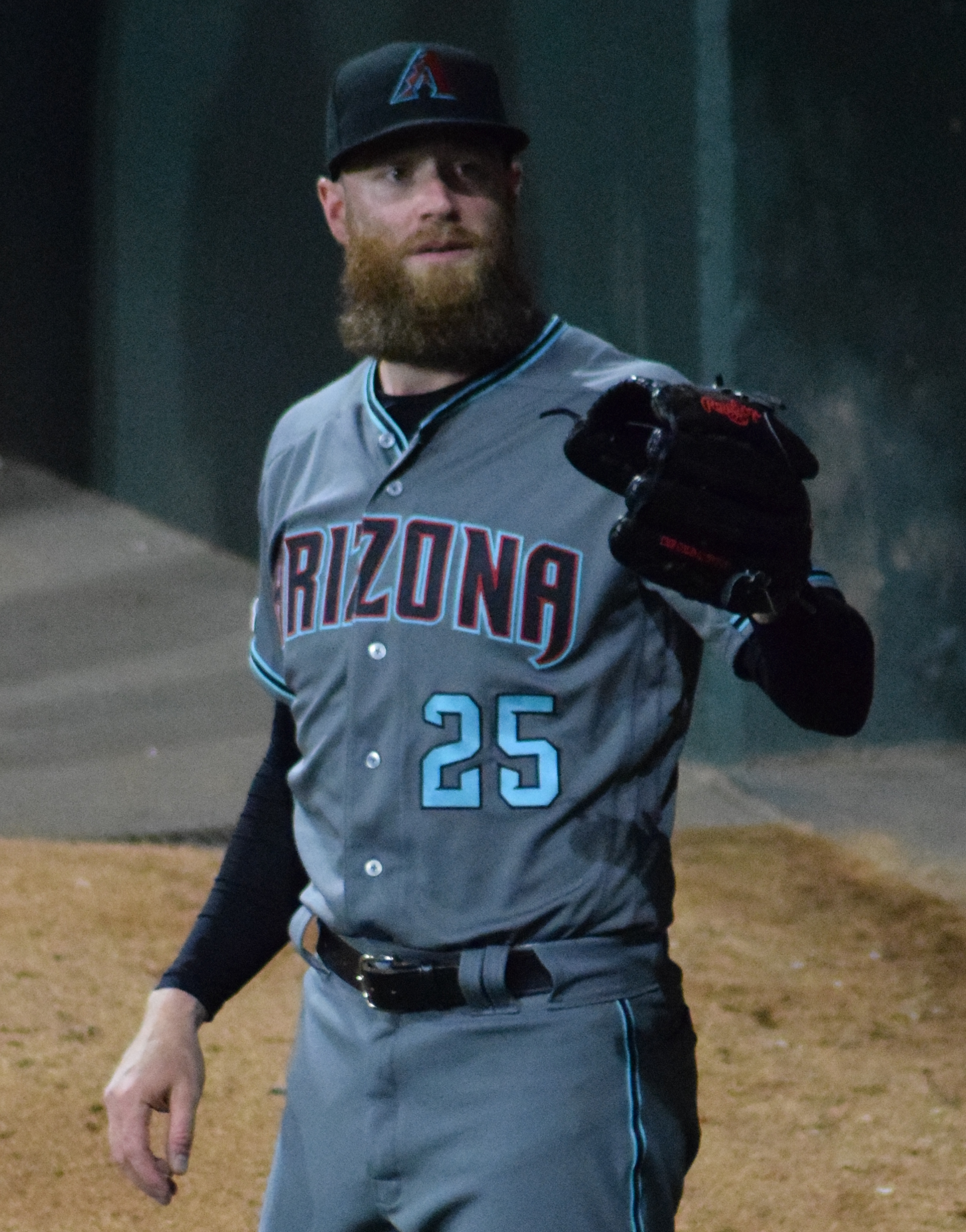 Archie Bradley with the Arizona Diamondbacks in the bullpen at Citizens Bank Park in Philadelphia in 2019